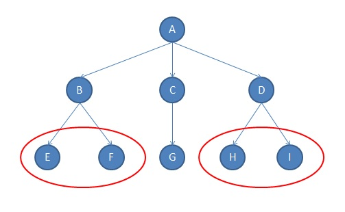 Illustration